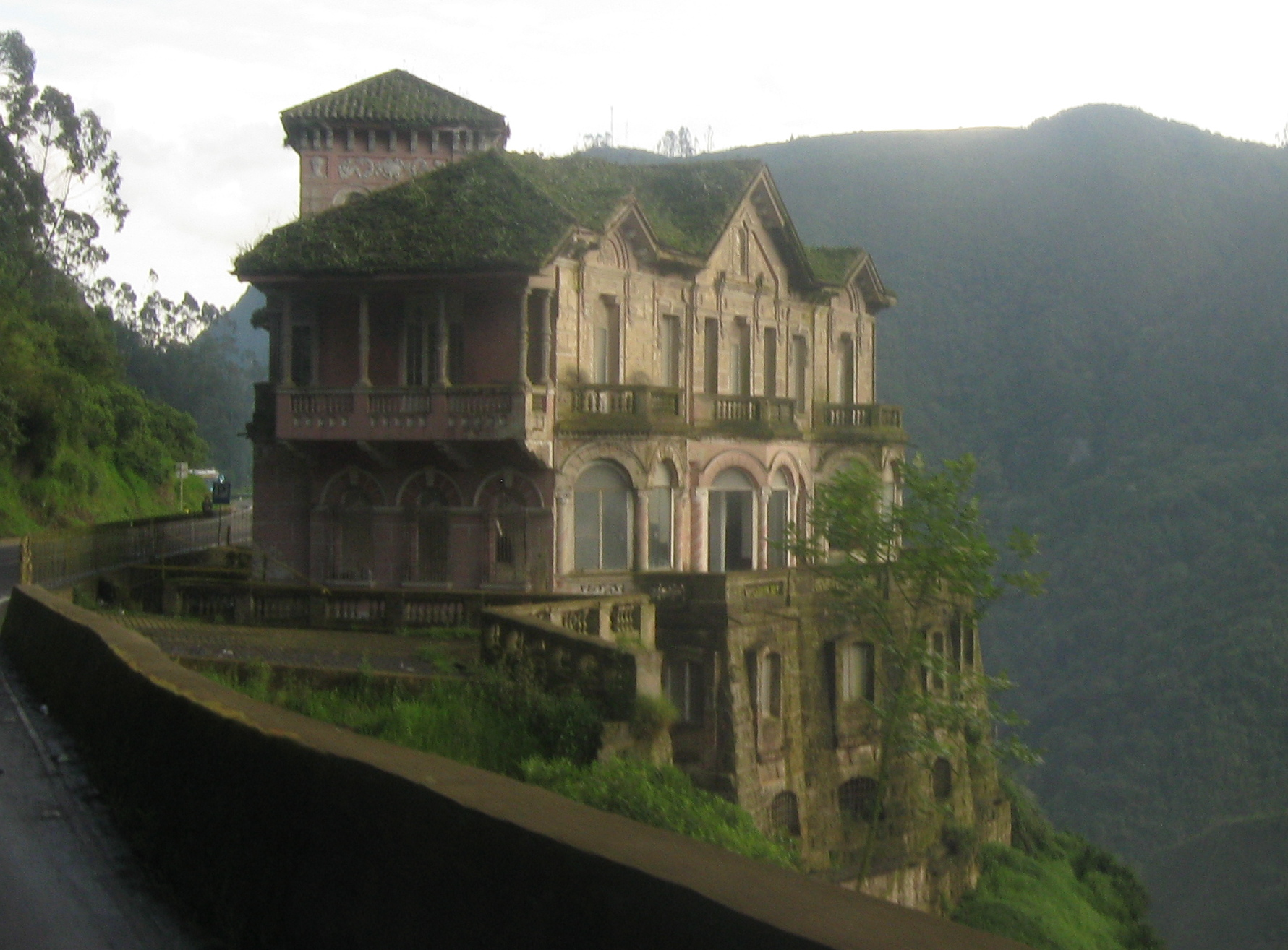 Abandoned hotel next to Tequendama Falls. 2010.